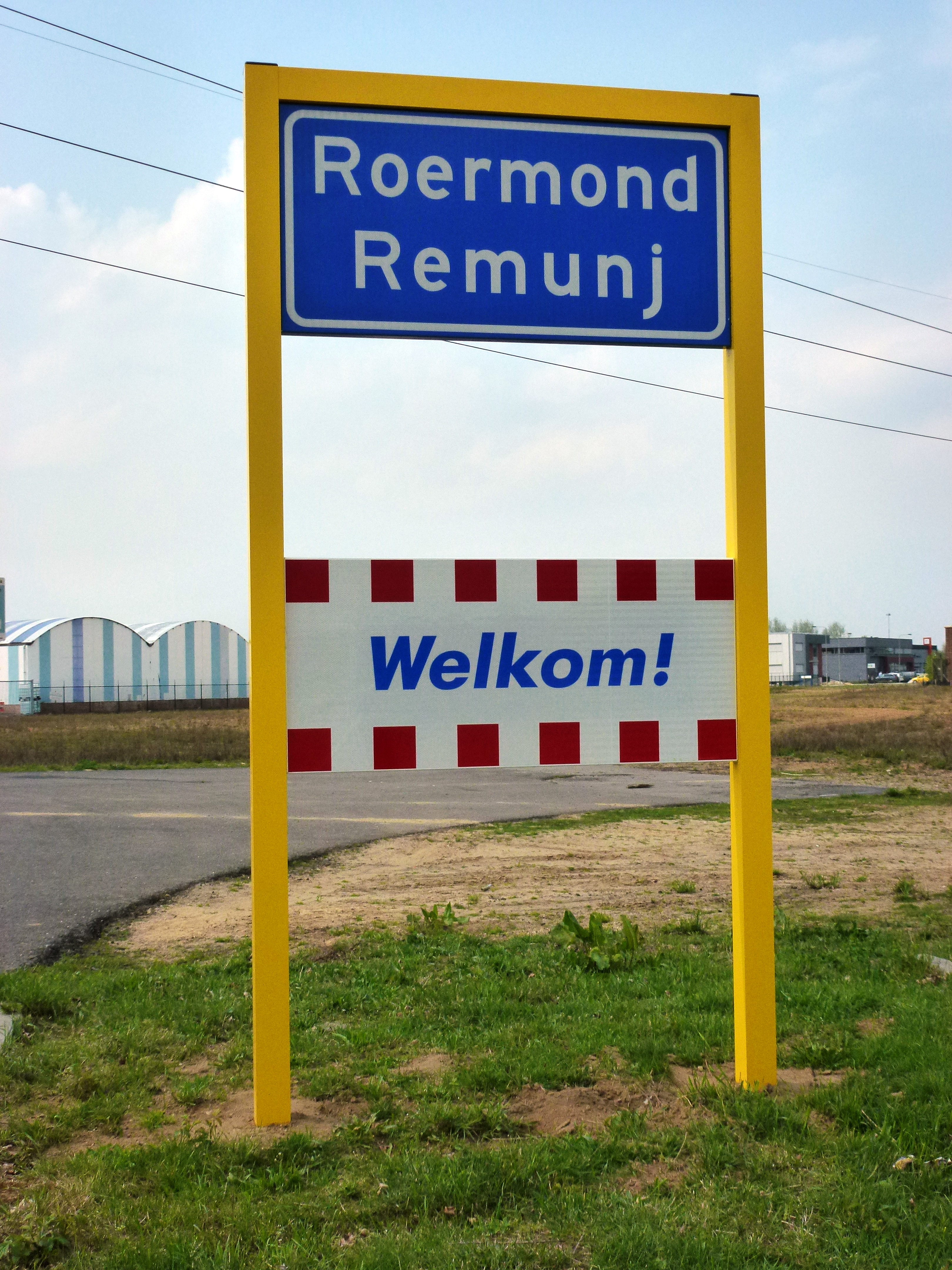 Roermond, tweetalig plaatsnaambord met welkom